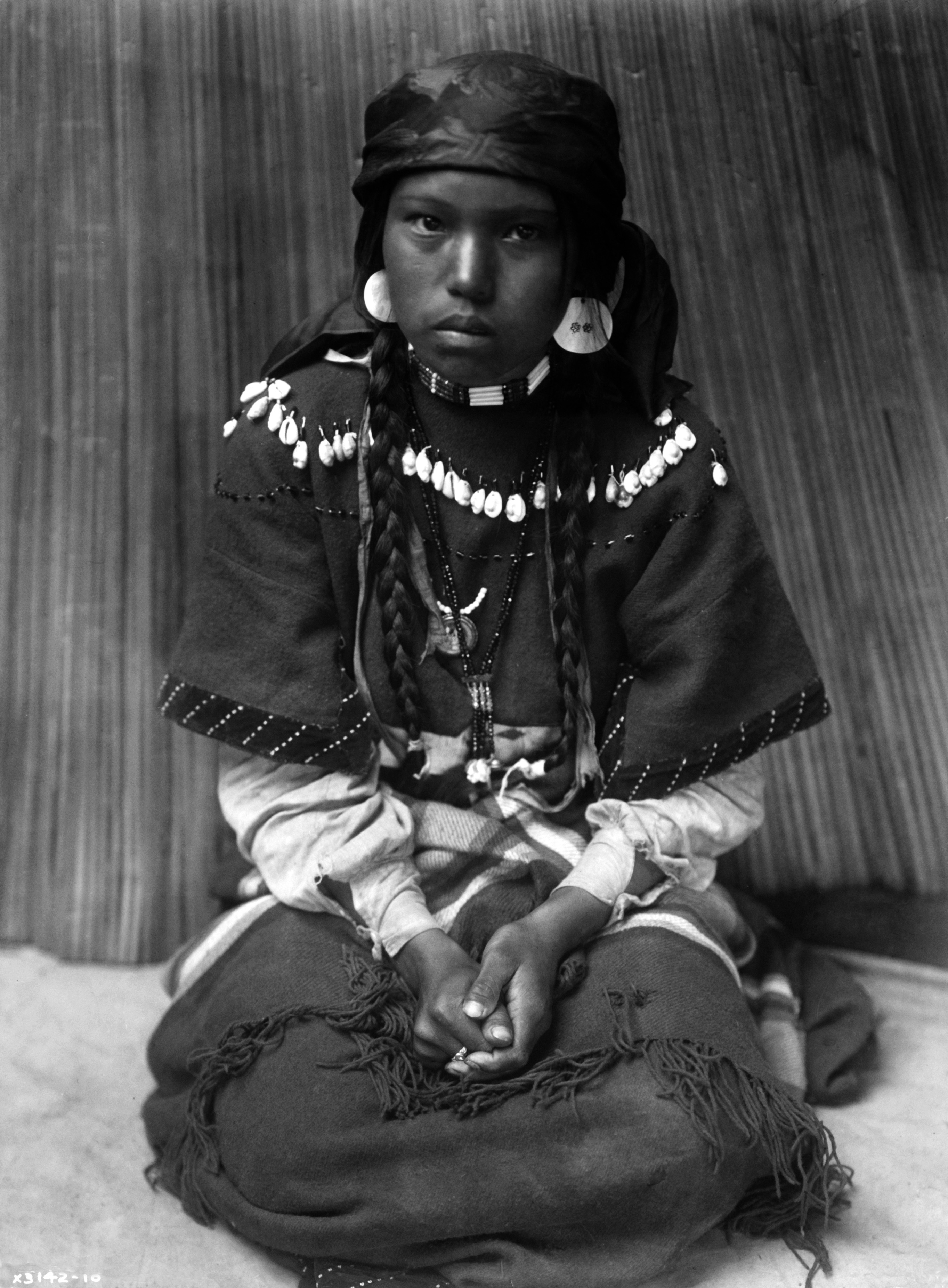 Kalispel (or Pend d'Oreilles) girl sitting on her knees, hands folded in lap, captioned "Touch her dress--Kalispel".